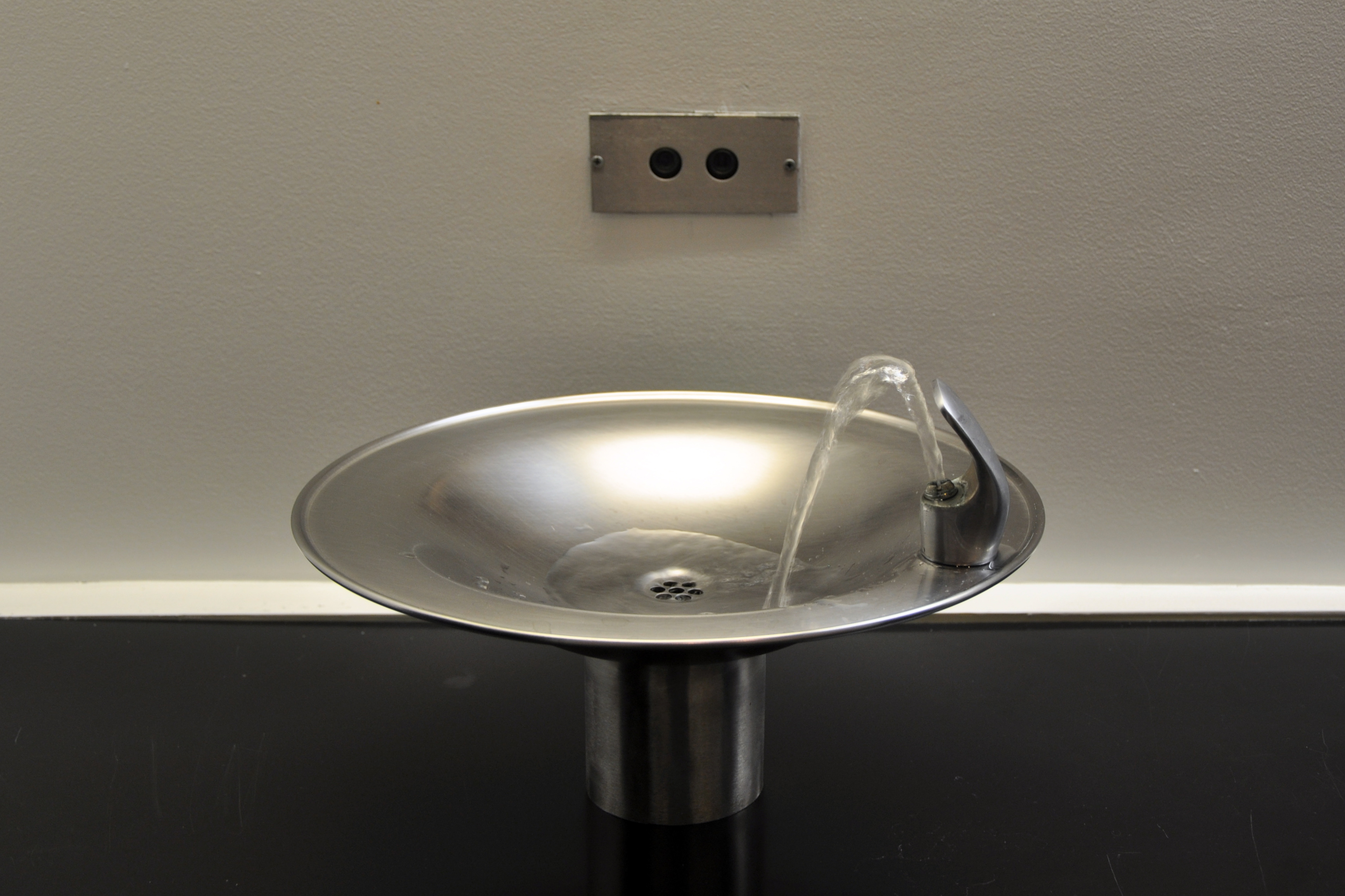 A sensor based automated drinking fountain (Model 107-14 made by Filtrine Mfg. Co., Keene NH USA)